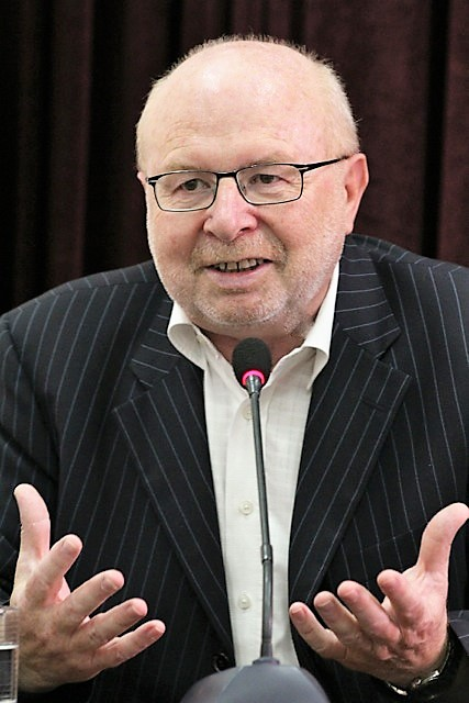 Johann Holzner